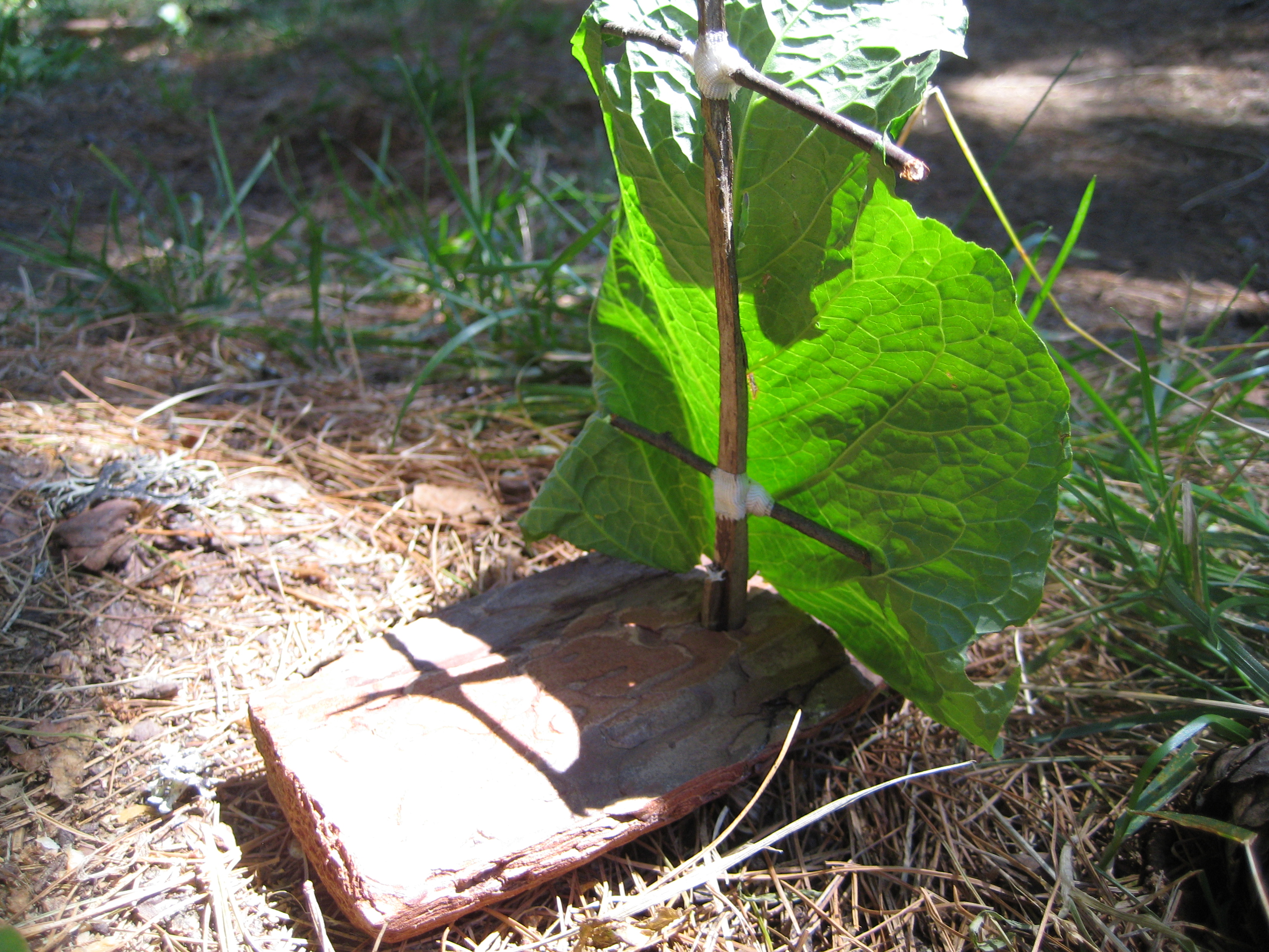 The bark boat gets an experimental sail.